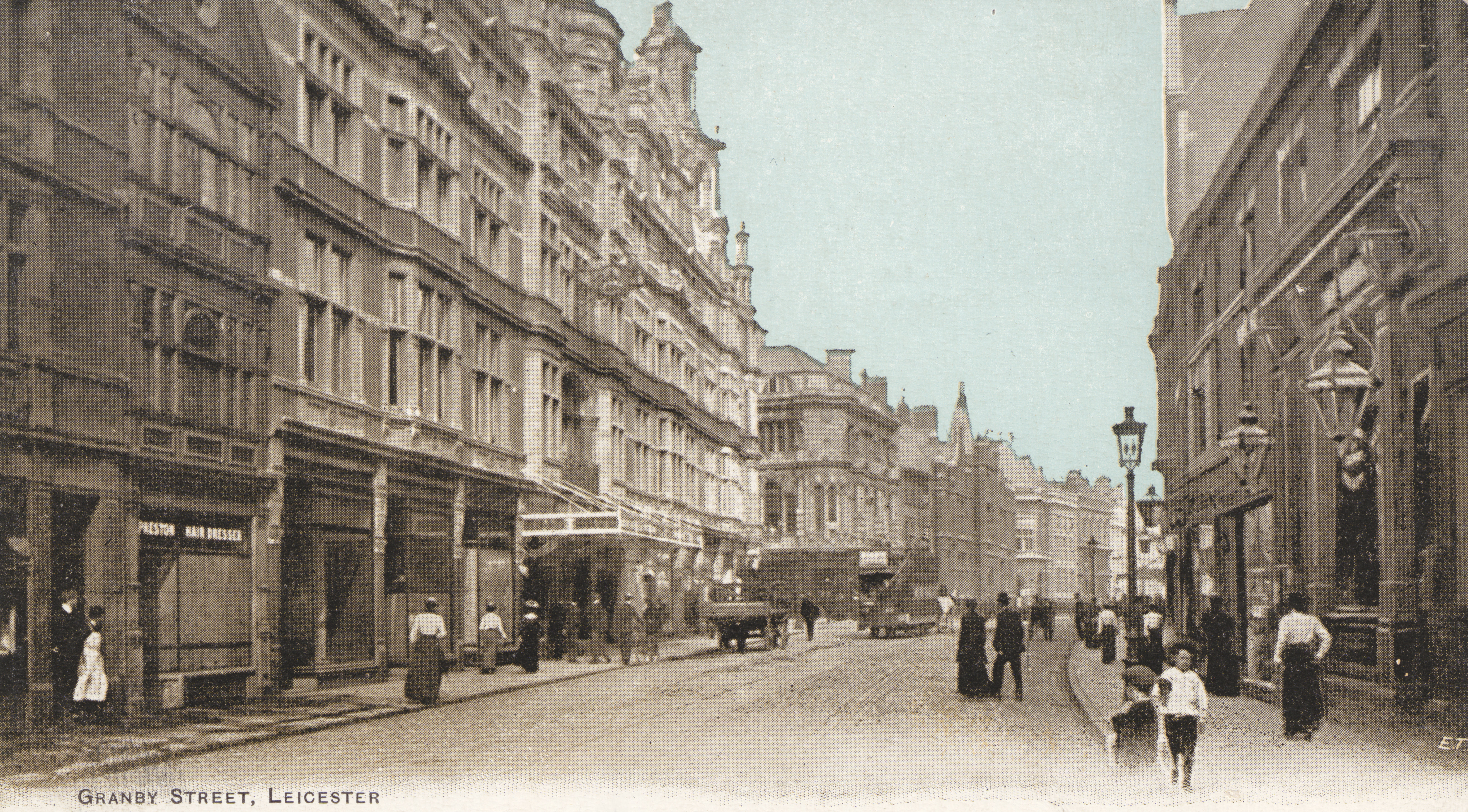 Granby Street, Leicester, in 1903 or earlier.